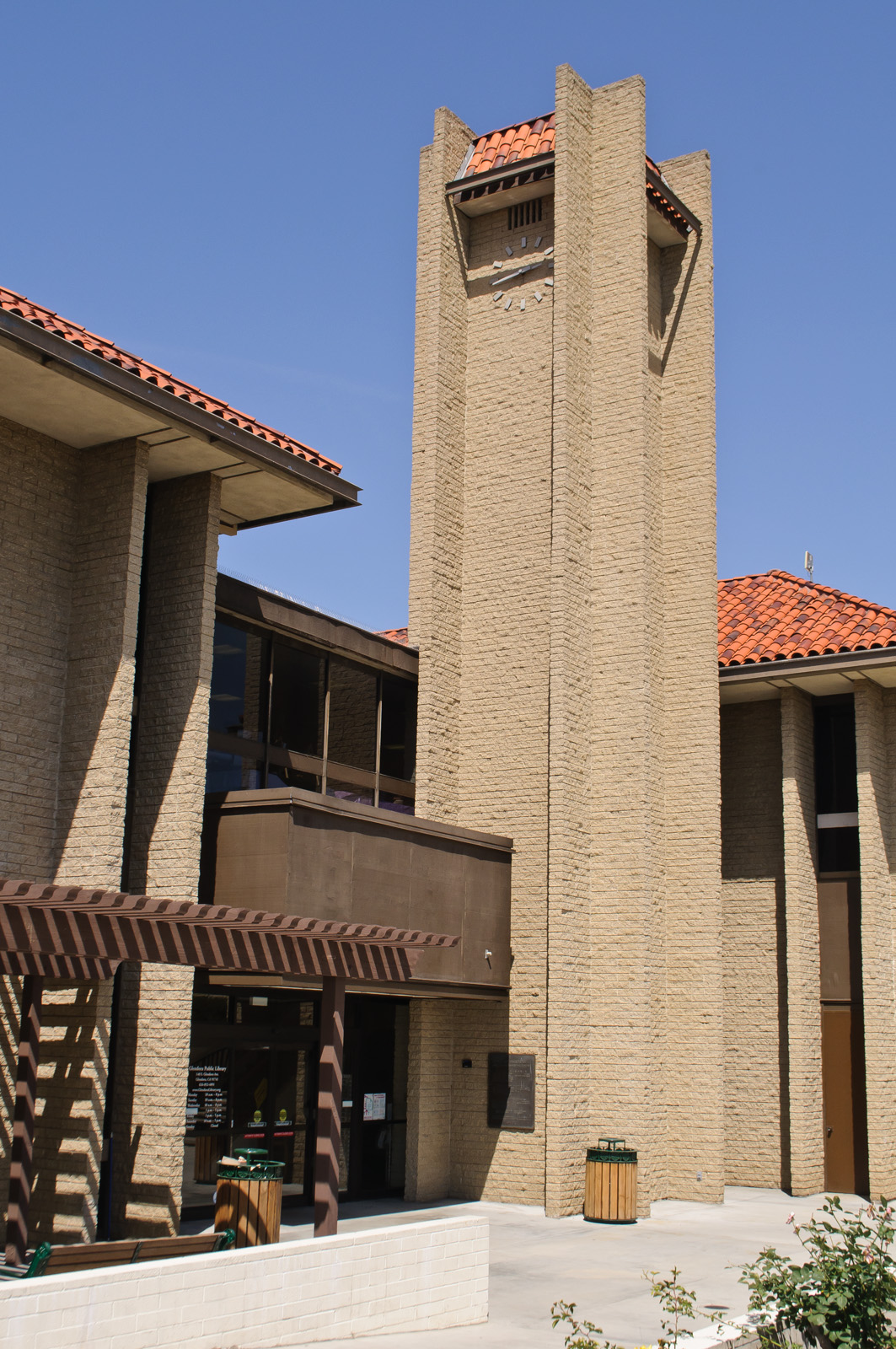 The entrance to the Glendora Public Library. The prominent clock tower at the civic center plaza is a rather unusual feature for an American suburban town - it is a feature more commonly expected in European cities. I am paying a visit to Glendora, located along the old Route 66 at the eastern edge of San Gabriel Valley, during its Earth Day festival. While San Gabriel Valley as a whole has gone through growth and demographic changes over the years, Glendora has retained the feel of San Gabriel Valley of yore; its population is smaller, its historic town core remains vibrant, and it is also a rare San Gabriel Valley city that remains majority white. My favorite singer-songwriter Anna Nalick grew up here in Glendora. And part of my Glendora visit is to soak up the same influences and vibes that had inspired Anna's songwriting. Following the vibes that have inspired my favorite musicians will now be a new twist to my future travels; in fact my Glendora visit is sort of a practice run for my visit to Huntington, Long Island, New York, just over a week later - where my longtime idol Mariah Carey grew up.